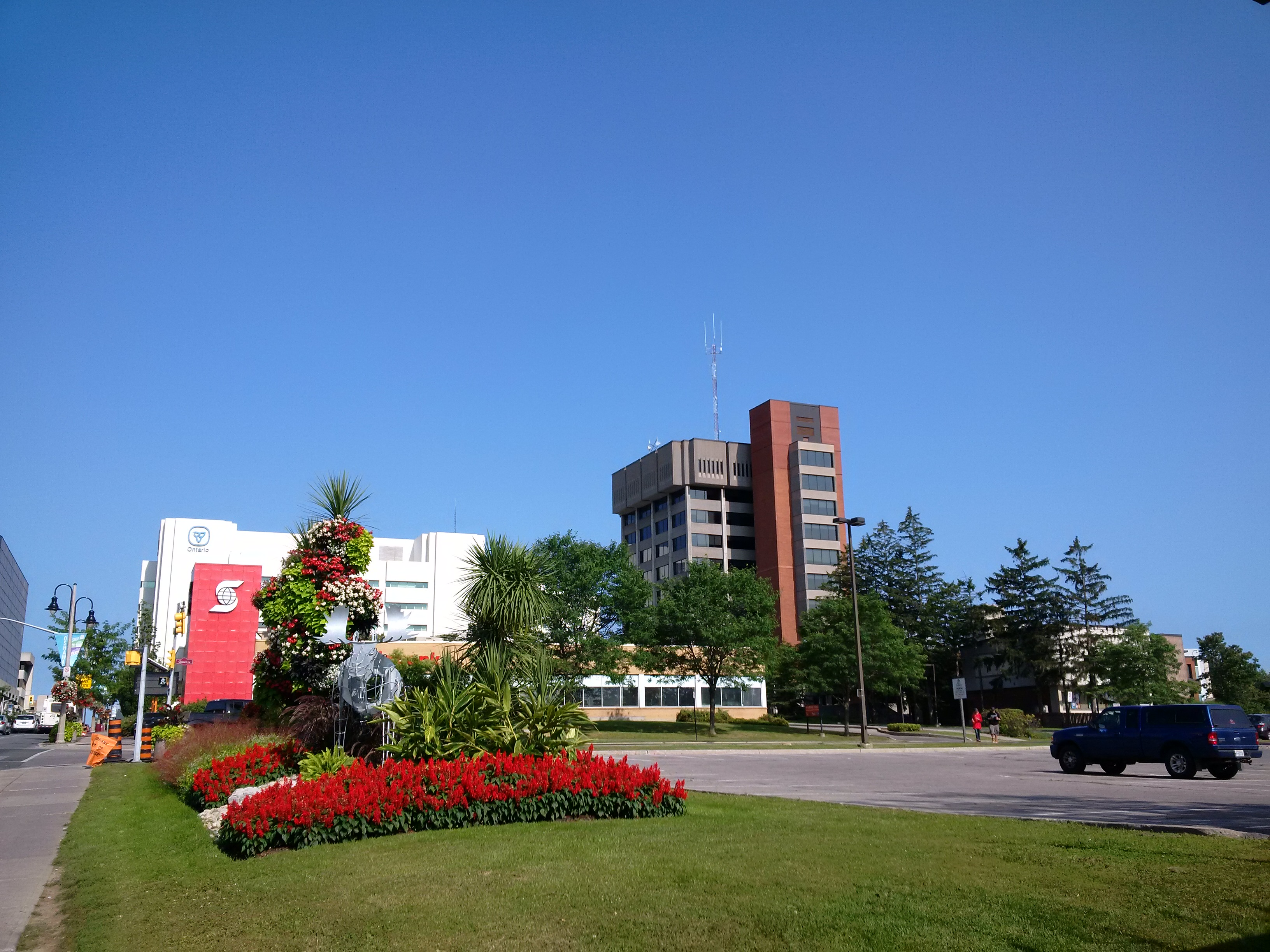 Oshawa City Hall in summer of 2017.